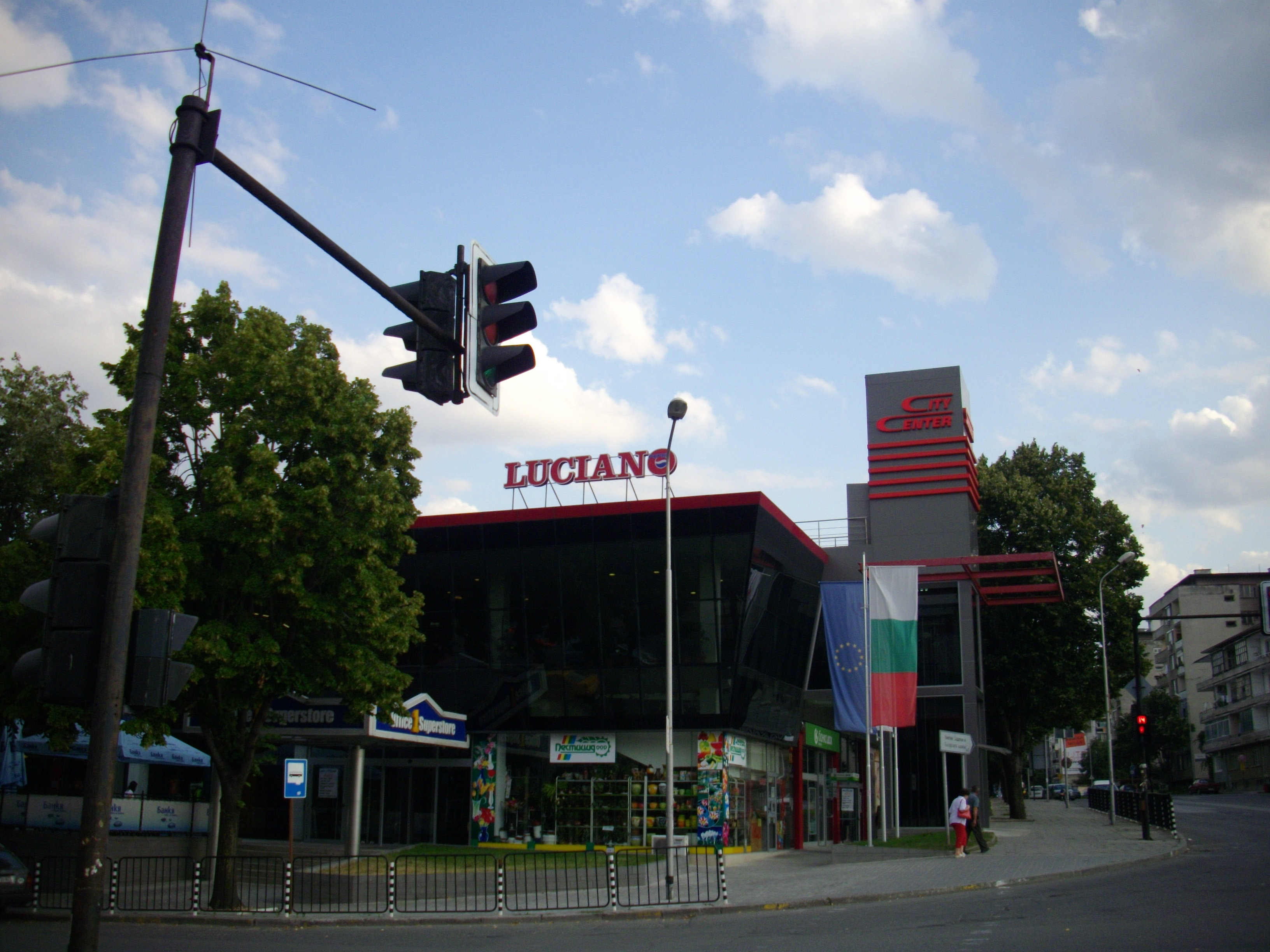 City Center